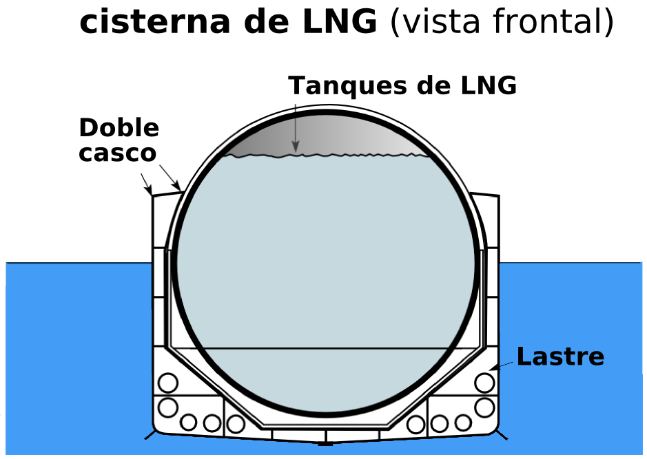 Liquefied natural gas (LNG) tanker, section view from front.